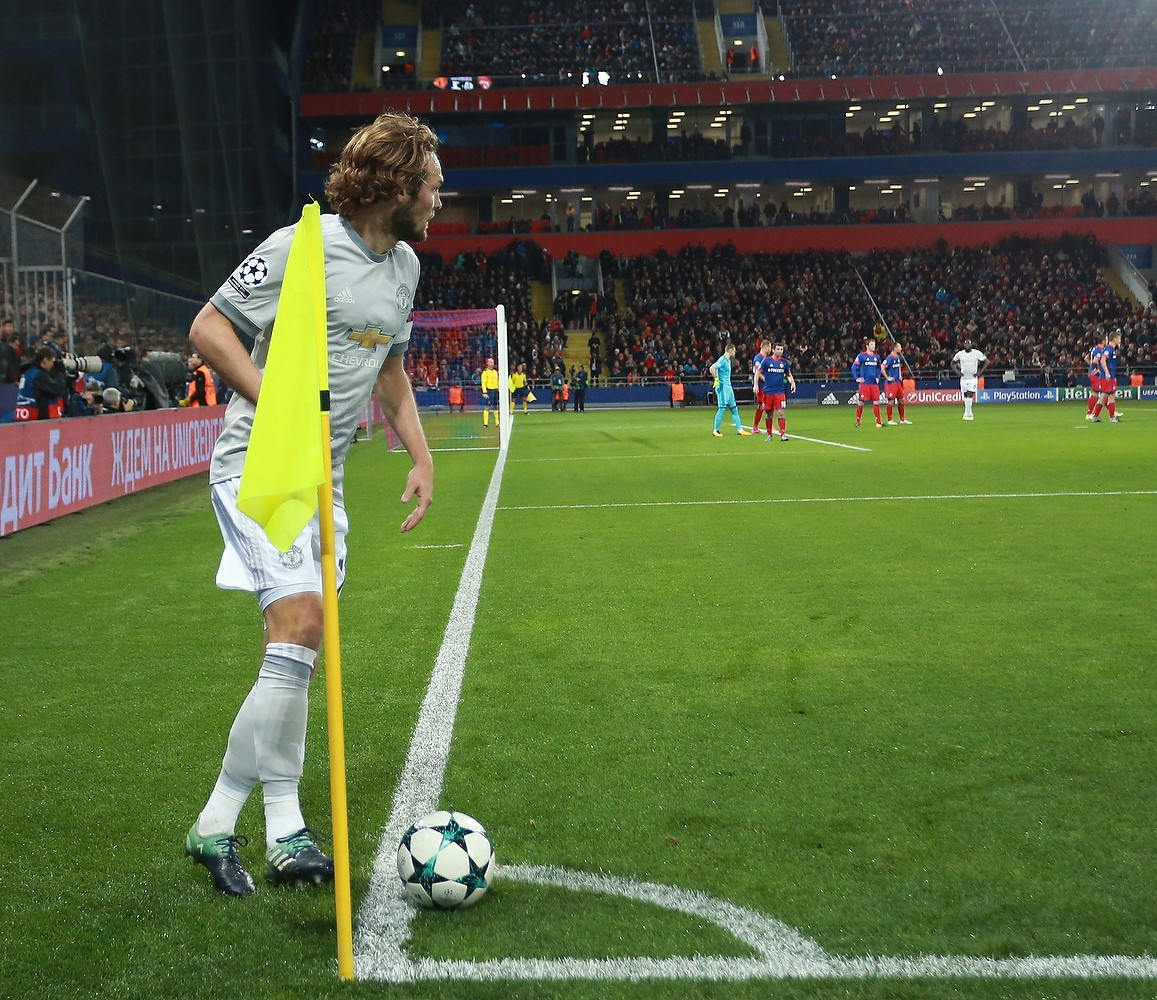 Daley Blind